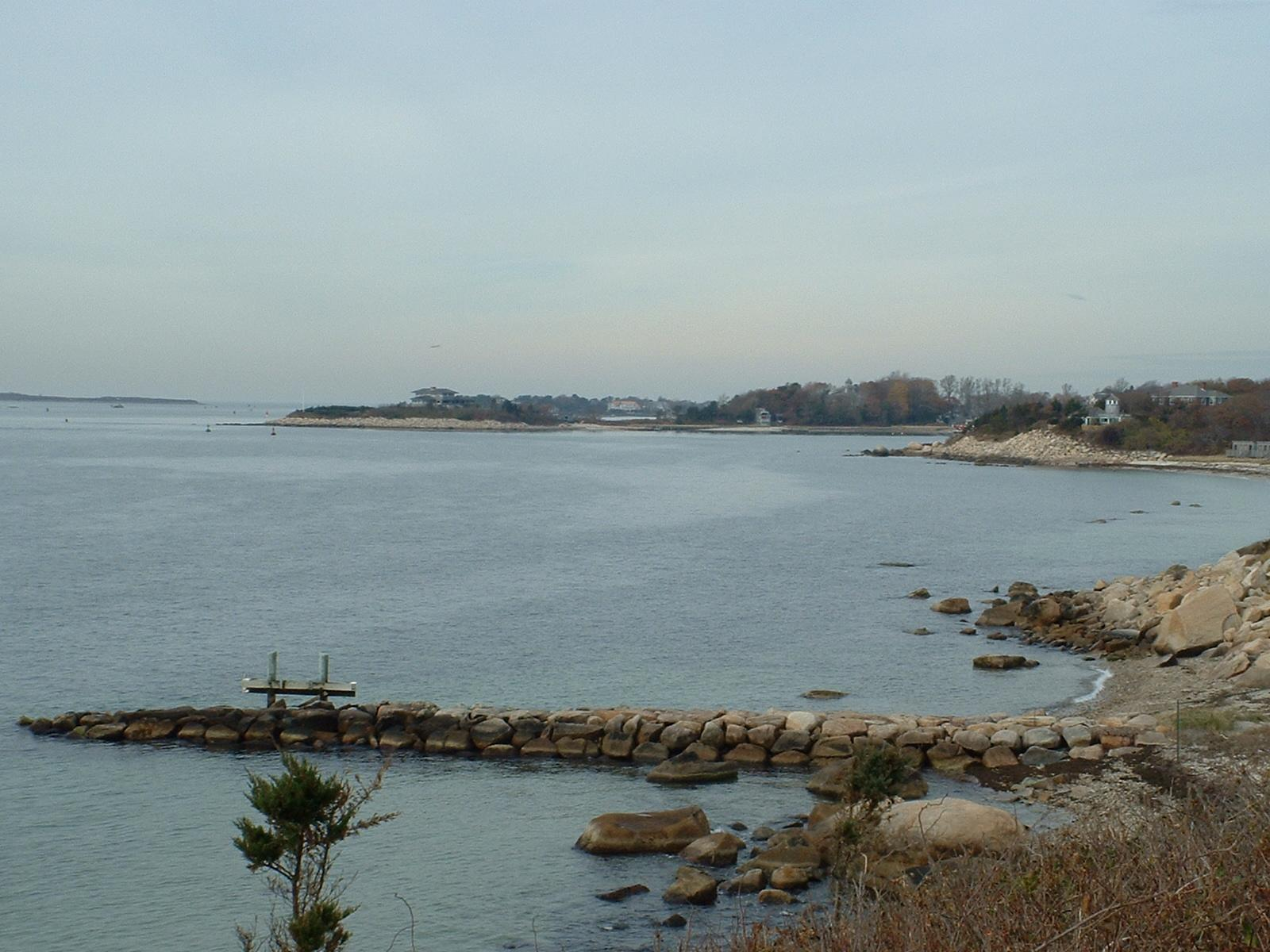 Juniper Point, just to the south of Wood's Hole, as seen from Nobska Point.